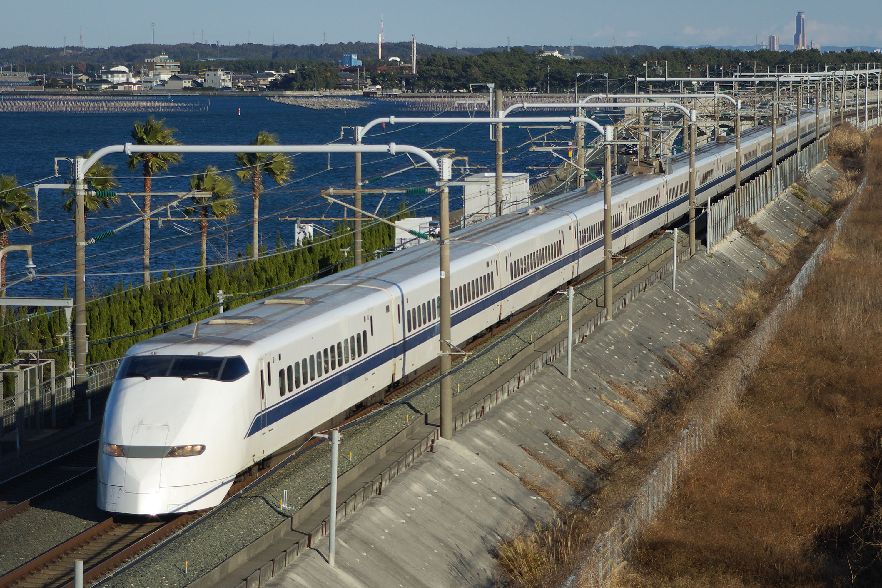 A JR Central 300 series shinkansen set between Hamamatsu and Toyohashi on the Tokaido Shinkansen